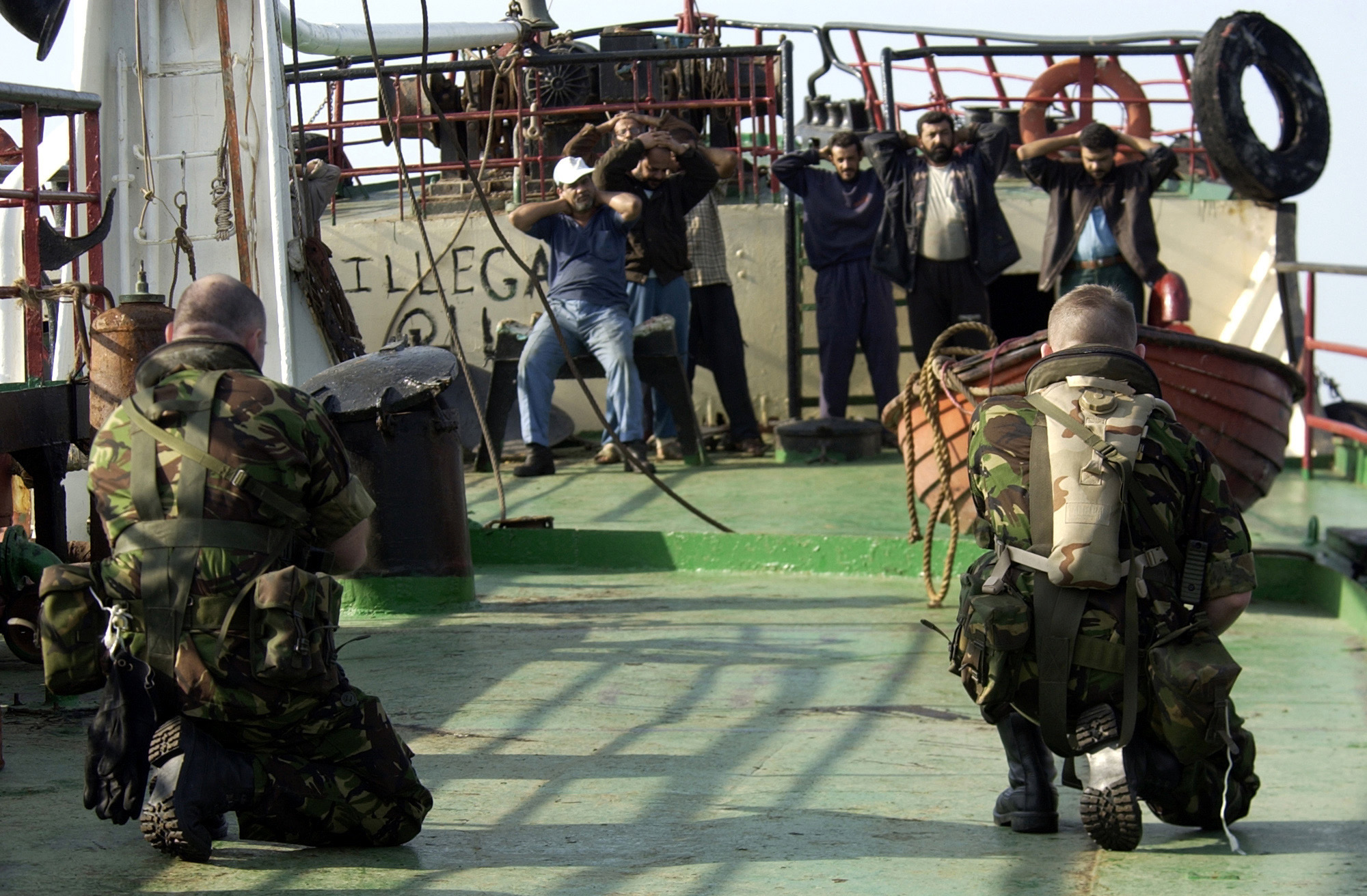 Royal Navy (British) Operations Mechanic First Class Above Water (OMAW1) Russell Webster and Leading Seamen (LS) David Williamson, from the TYPE 42 CLASS; Destroyer, Her Majestys Ship (HMS) CARDIFF (D 108), guard the crew of an Iraqi oil tanker during Maritime Interdiction Operations conducted the Arabian Sea. HMS CARDIFF along with other coalition ships is operating in the Central Command Area of Responsibility (AOR) supporting United Nations sanctions, during Operation ENDURING FREEDOM.